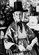 Welsh lady with hat